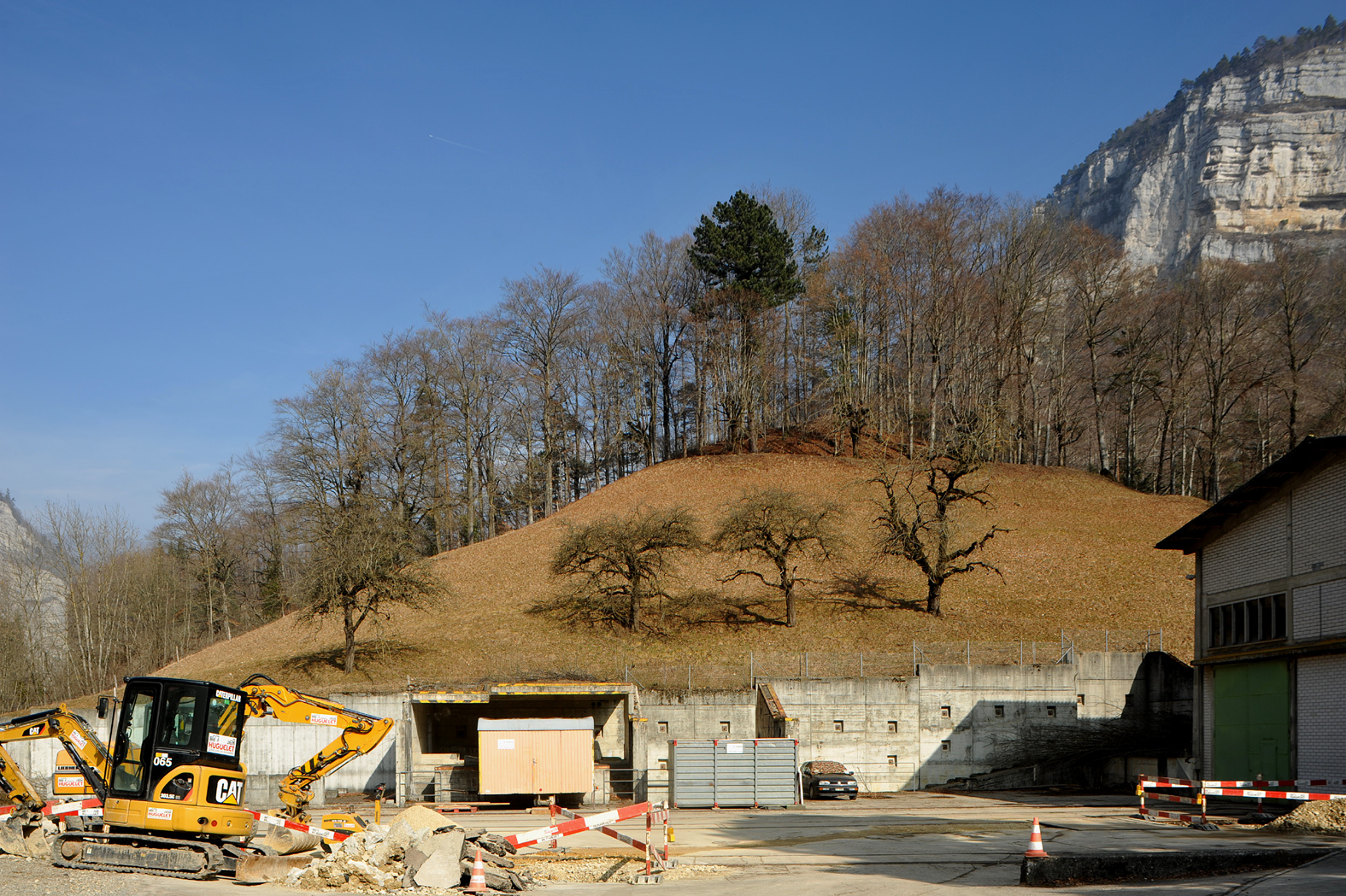 Rondchâtel, «castle hill» terrace at the southern side; Berne, Switzerland.